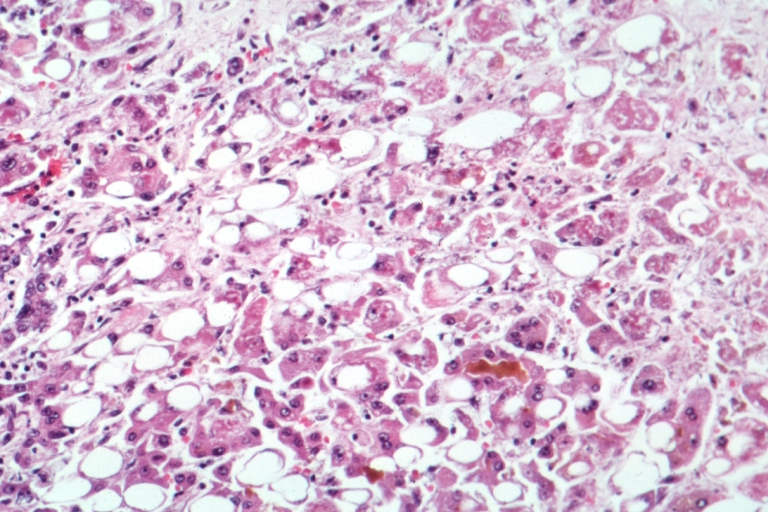 microscopy of liver,H&E stain, showing evidence of Alcoholic Hepatitis: fatty change, cell necrosis, Mallory bodies:image from PEIR - University of Alabama at Birmingham Department of Pathology [1]